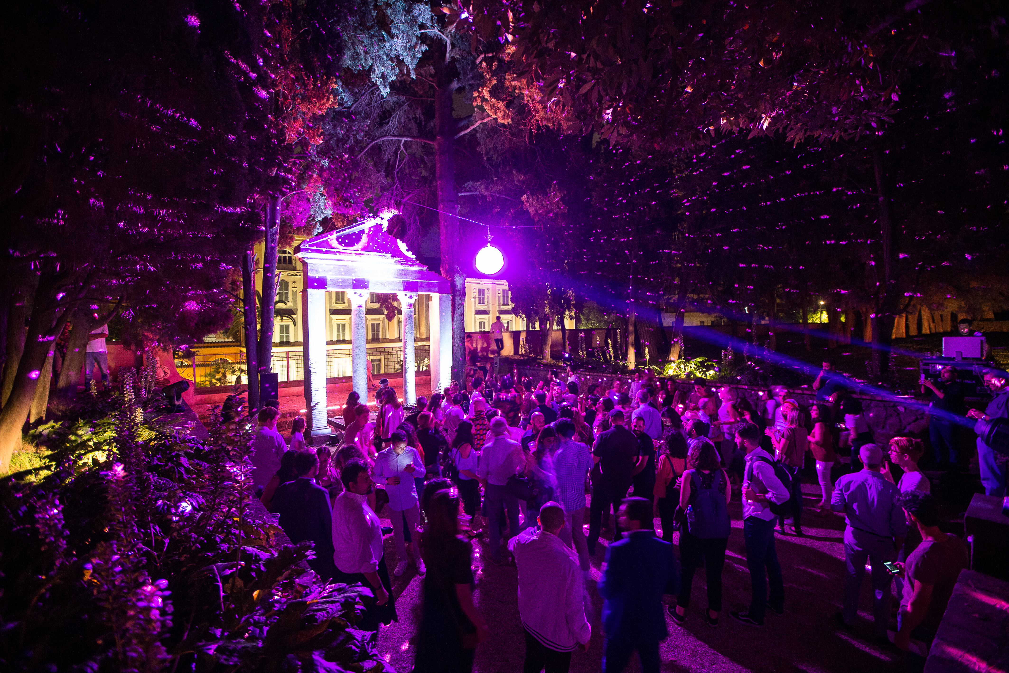 Villa Massimo in Rome, summerparty 2018